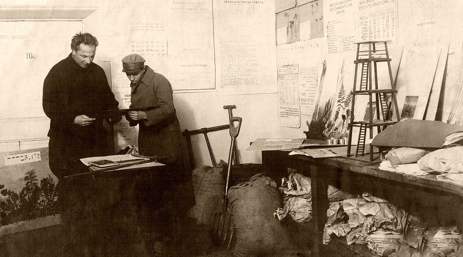 Emanuel Tiesenhausen with his student. Forest College in Oranienbaum. The end of 1920s.